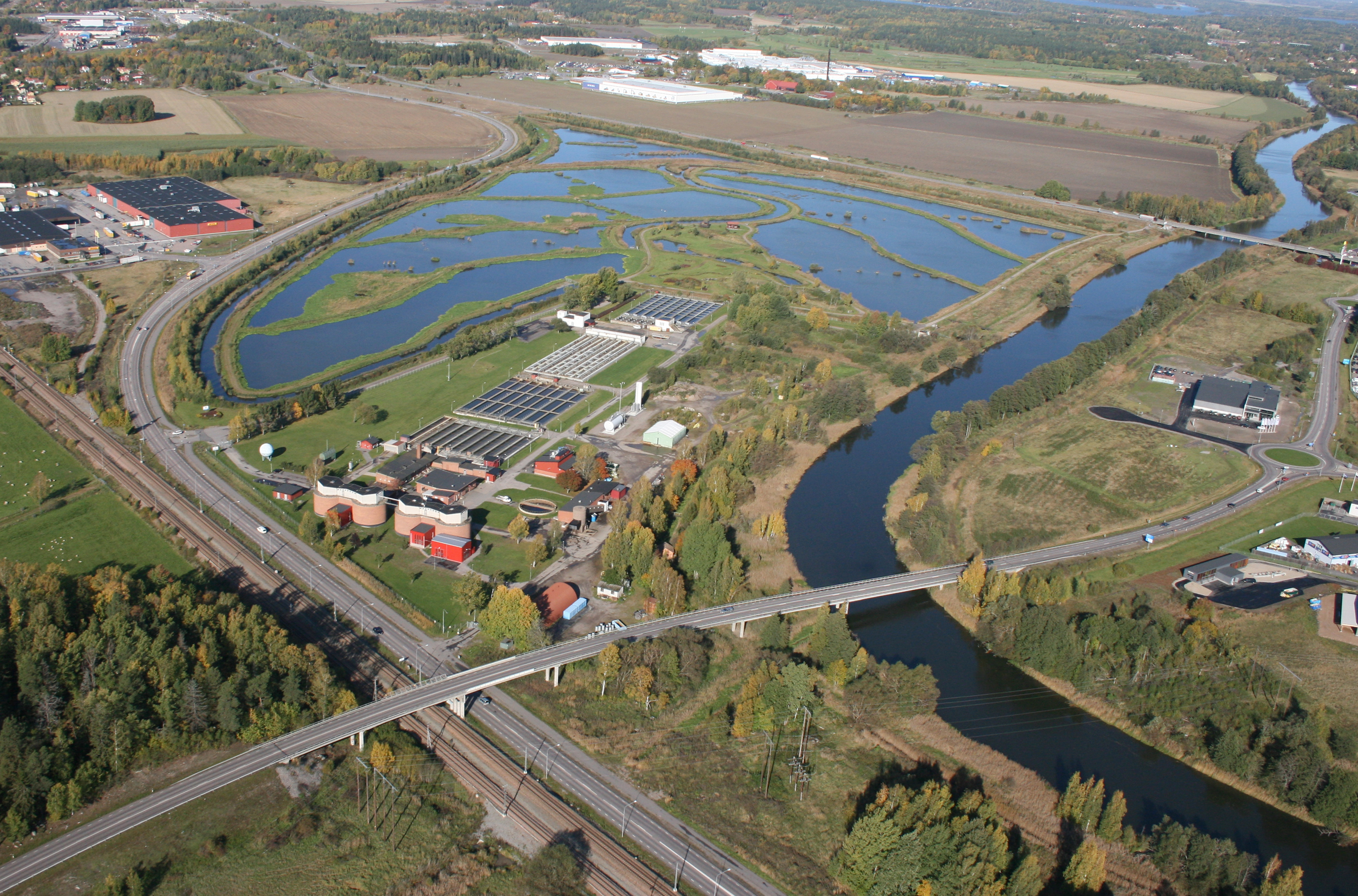 Ekeby wetland in Eskilstuna, Sweden.